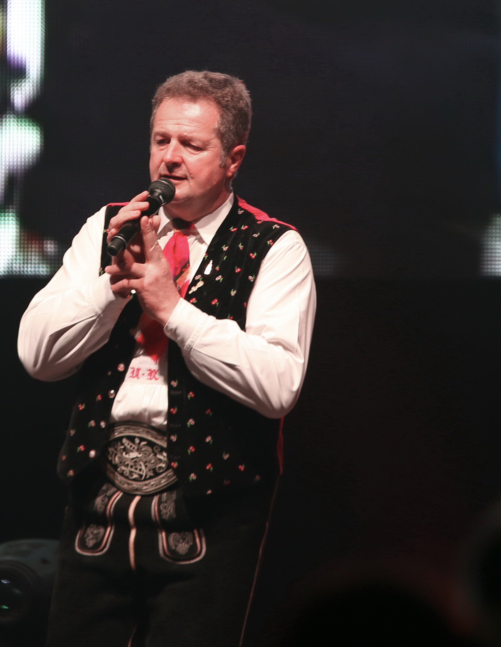 Die Kastelruther Spatzen im März 2016 in der Bigbox Kempten Norbert Rier Festivalsommer This photo was created with the support of donations to Wikimedia Deutschland in the context of the CPB project "Festival Summer". This file is made available under the Creative Commons CC0 1.0 Universal Public Domain Dedication. The person who associated a work with this deed has dedicated the work to the public domain by waiving all of their rights to the work worldwide under copyright law, including all related and neighboring rights, to the extent allowed by law. You can copy, modify, distribute and perform the work, even for commercial purposes, all without asking permission. Thomas Springer Personality rights warningAlthough this work is freely licensed or in the public domain, the person(s) shown may have rights that legally restrict certain re-uses unless those depicted consent to such uses. In these cases, a model release or other evidence of consent could protect you from infringement claims.